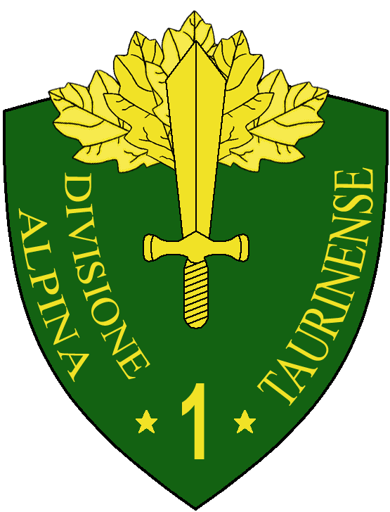 1st Italian Alpine Division "Taurinense" Coat of Arms (WWII)